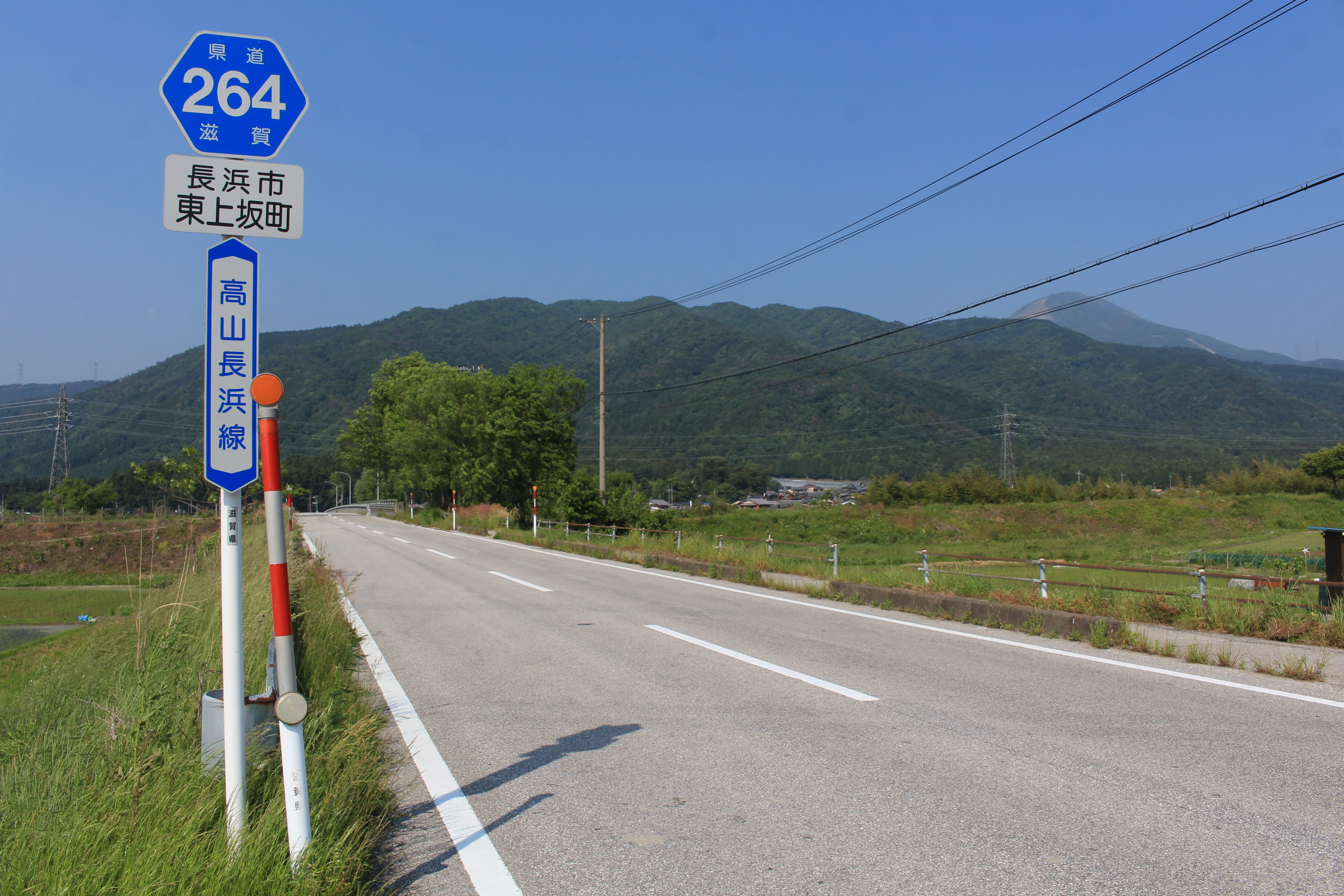 Shiga Prefectural Road Route 264 in Higashikozaka, Nagahama, Shiga Prefecture, Japan.